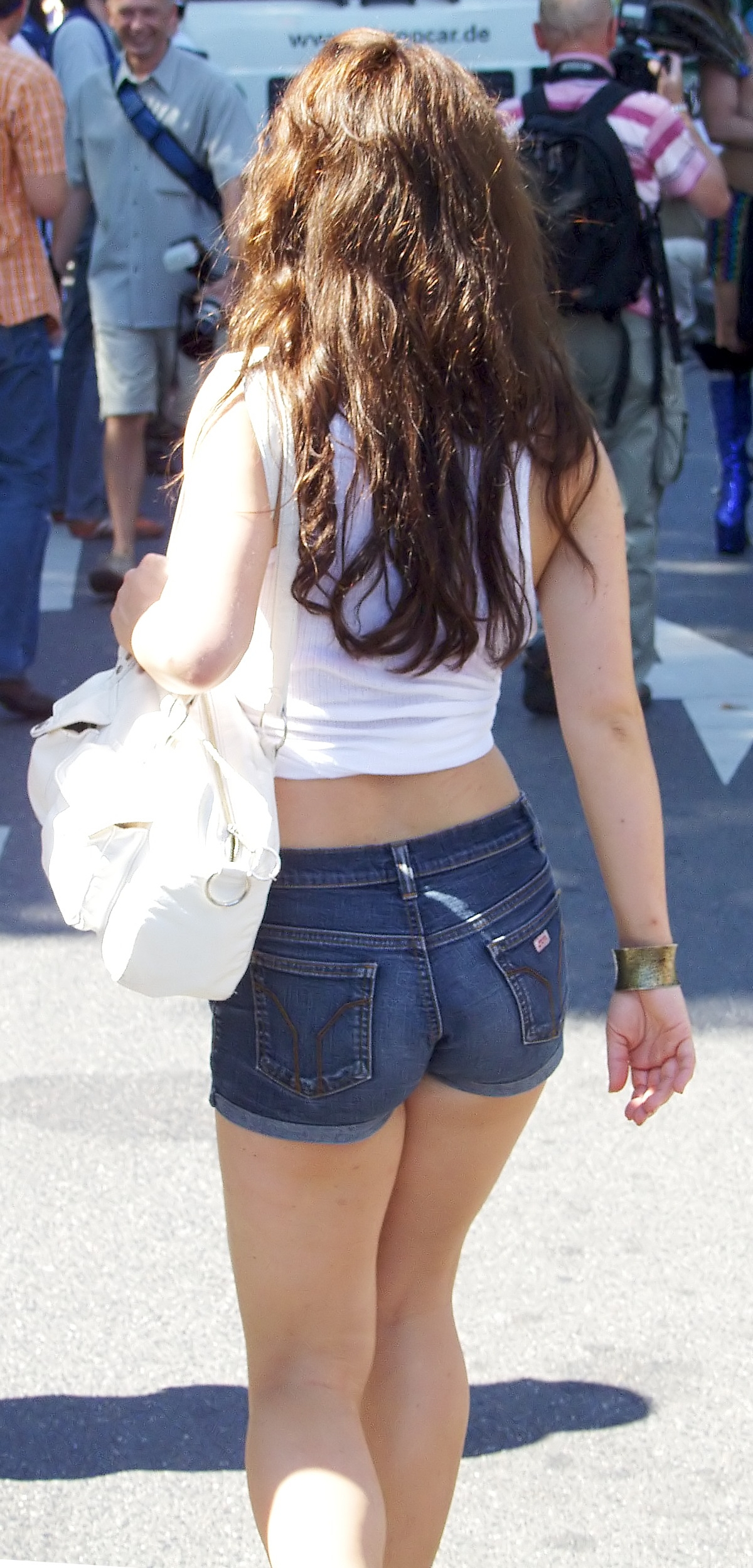 Members of the Christopher Street Day demonstration - ColognePride 2006